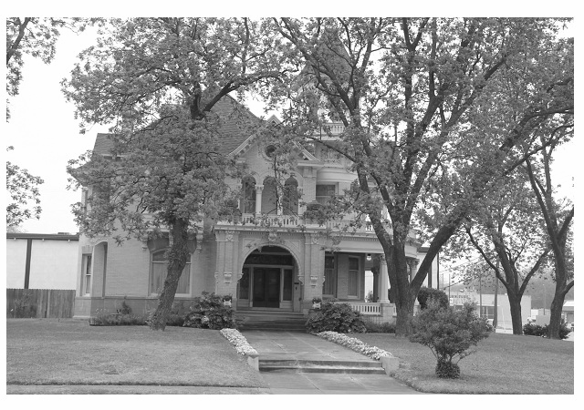 Madison Cooper House 1801 Austin Avenue Waco, Texas